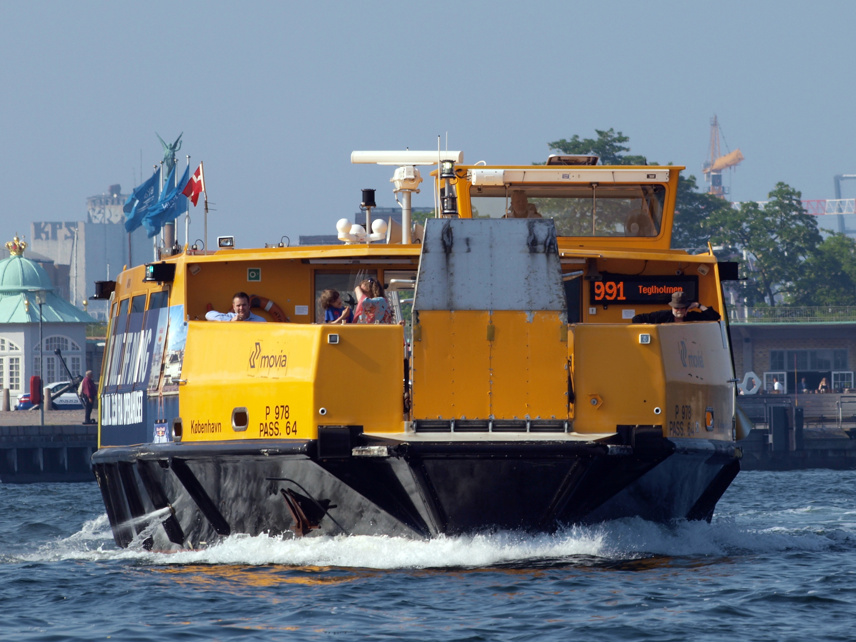 Photographed at the Copenhagen, Denmark.